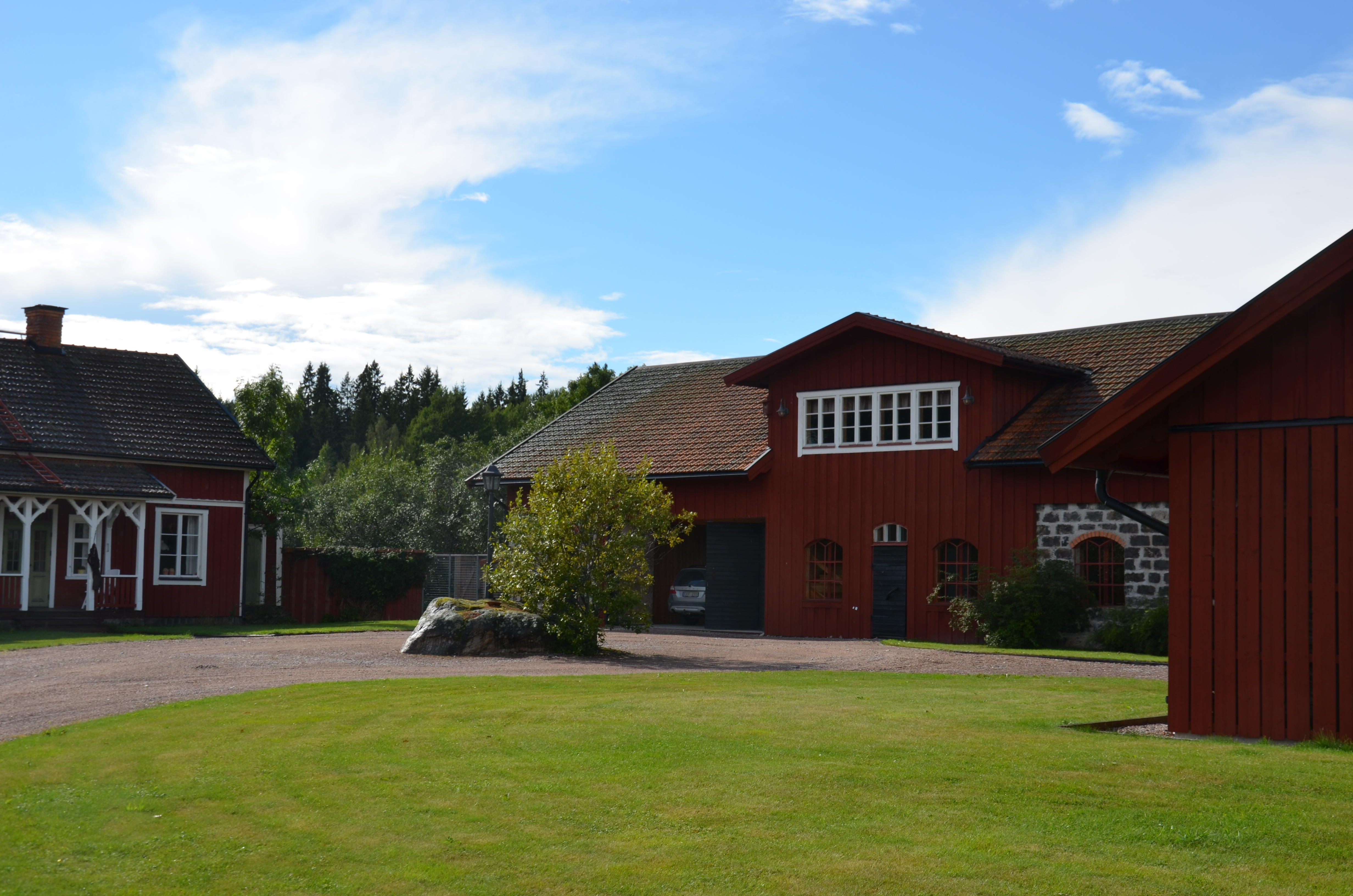 Snytsbo gård, Snytsbo, Norbergs kommun. Conference centre of Karl Hedin AB